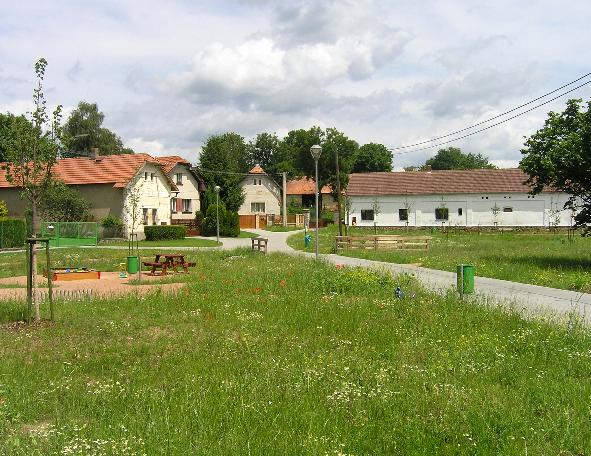 Common in Sulice village, Czech Republic